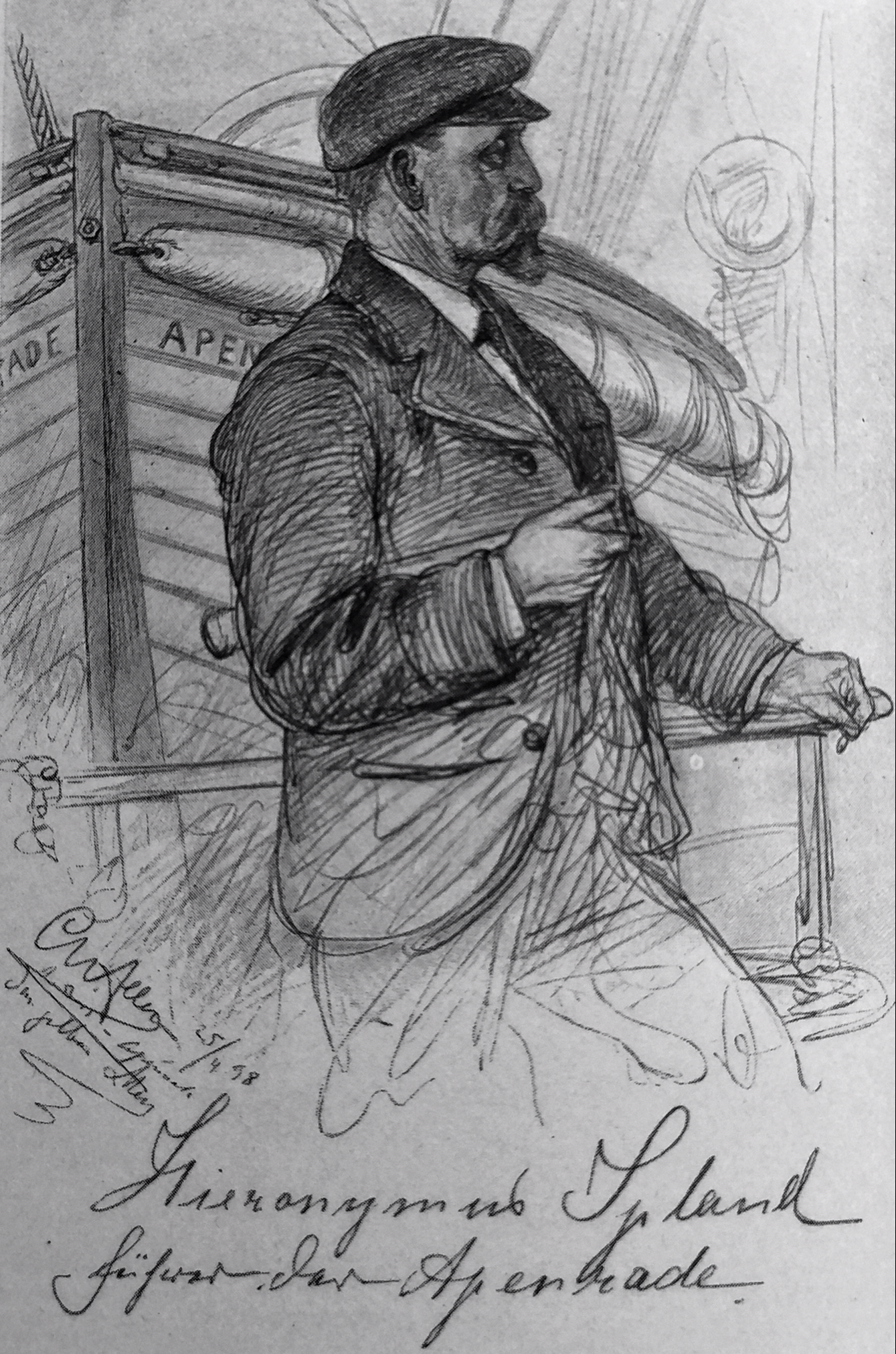 Sea Captain Hieronymus Ipland aboard the Apenrade on the way to Quingdao on April, 25th, 1898. It was drawn by Christian Wilhelm Allers and published in his book „Rund um die Erde“ (around the world) in 1898.